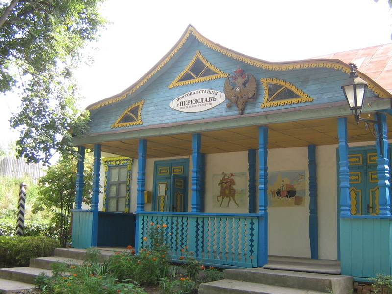 An old Ukrainian Post Office at the Museum of folk architecture and way of life of Middle Naddnipryanschina in Pereiaslav-Khmelnytskyi.